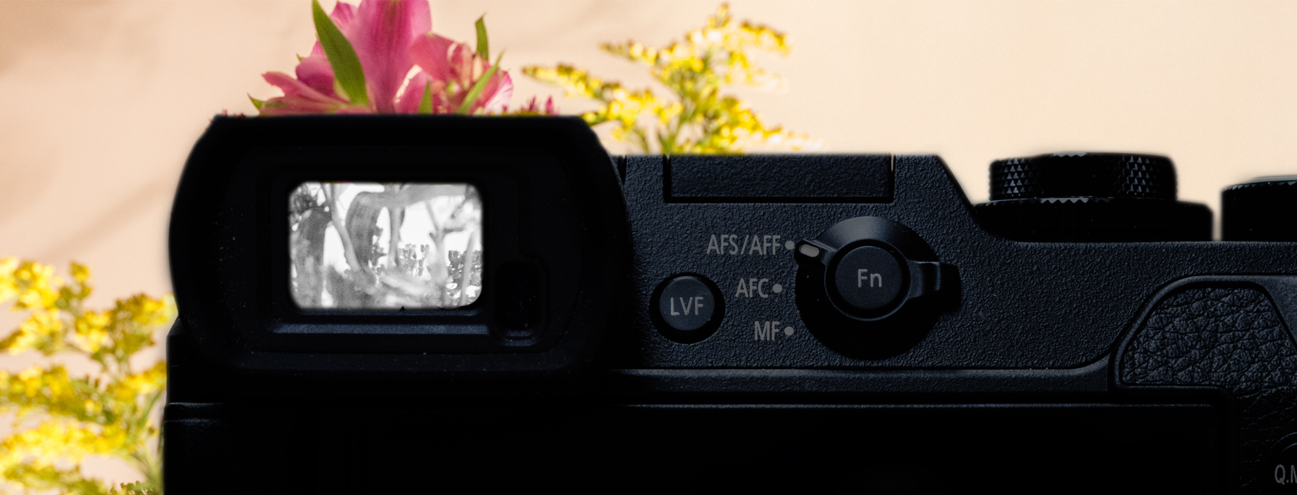 Simulation of EVF